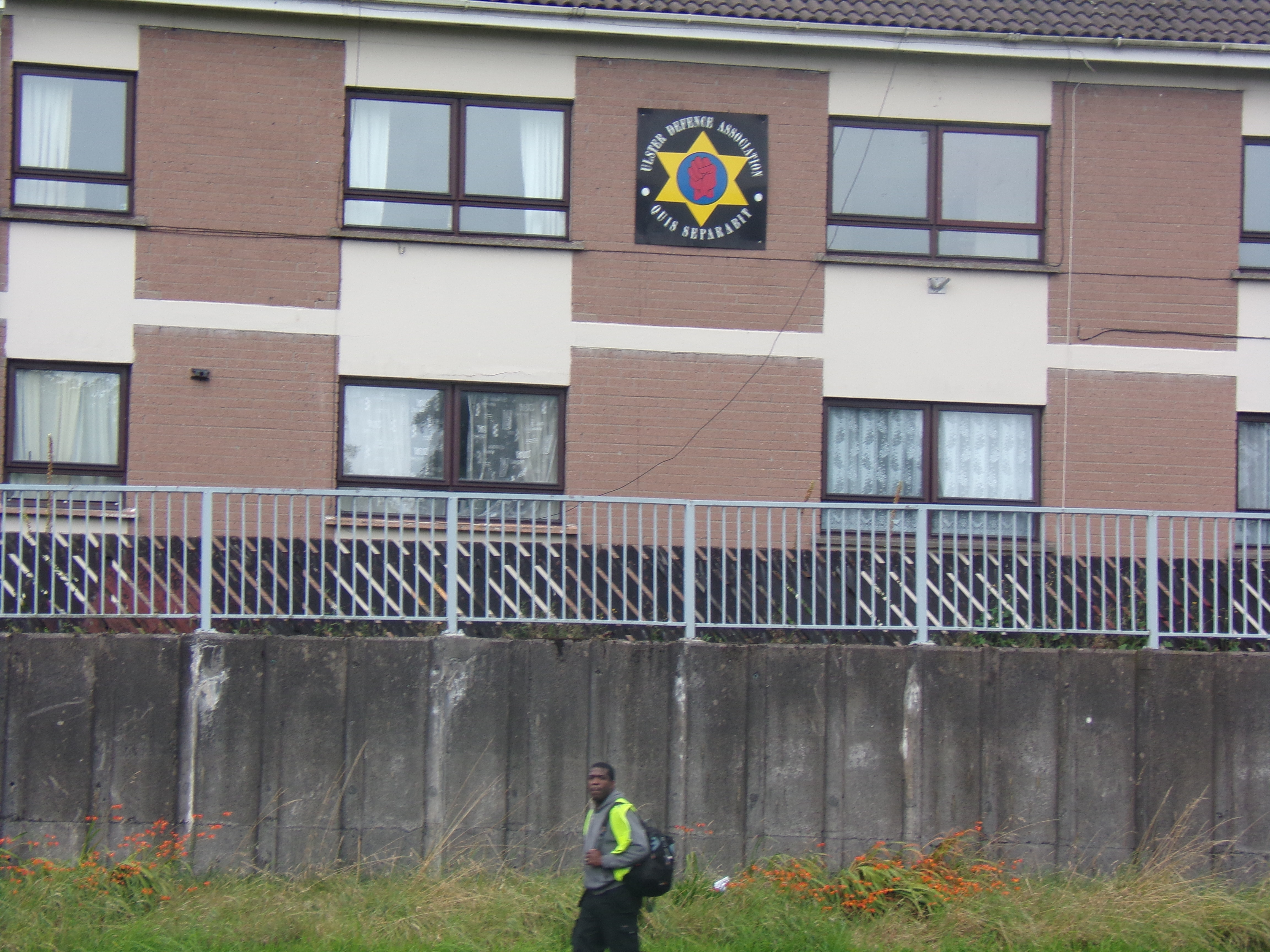 A UDA sign in the Ballykeel area of Ballymena.